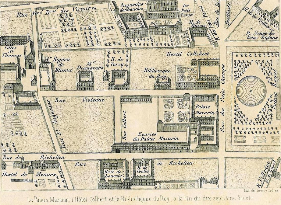 Vue du ciel du quadrilatère rue Vivienne - Rue des Petits-Champs - Rue de Richelieu - Rue Colbert : le palais Mazarin et la bibliothèque du Roy comme ils se trouvaient encore vers 1690-1700. Lithographie Thierry Frères, dans Léon de Laborde, De l’organisation des bibliothèques dans Paris, 4e lettre : Le palais Mazarin et les habitations de ville et de campagne au XVIIe siècle, Paris, A. Franck, 1845.